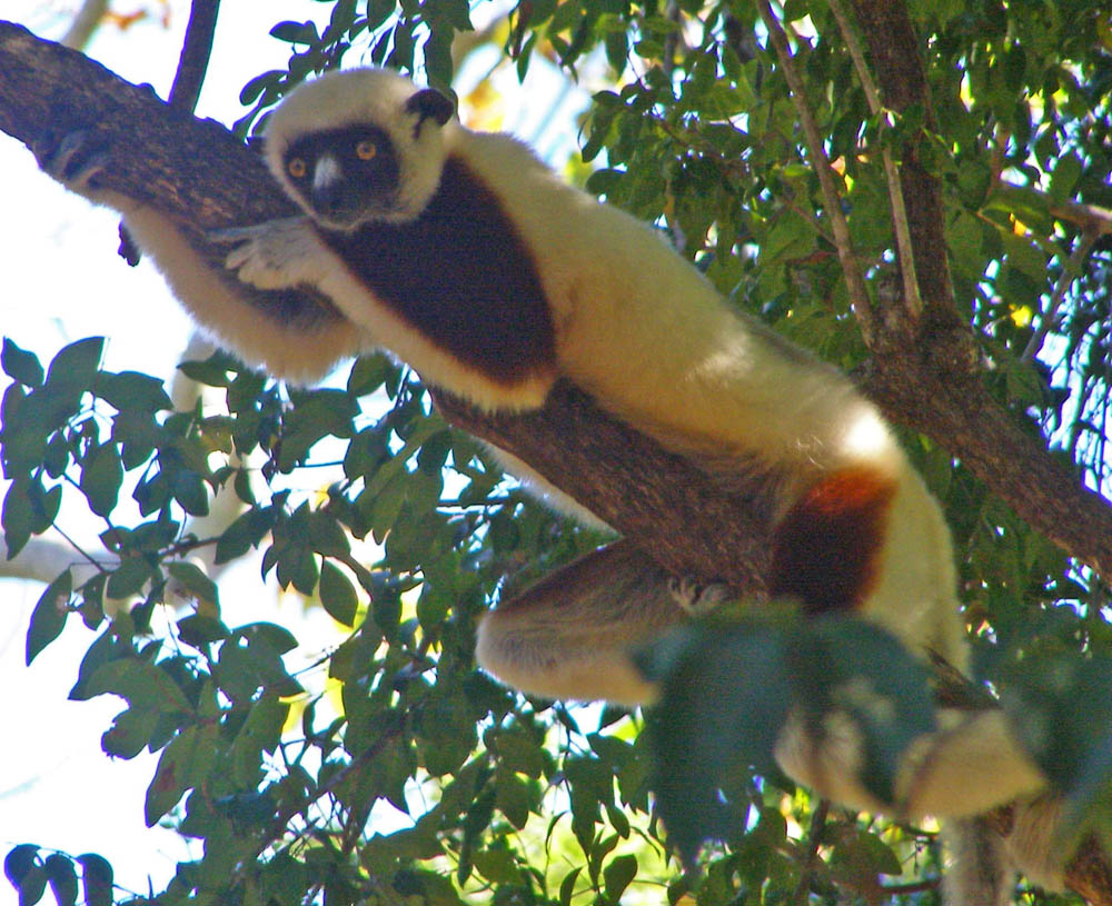 Coquerel's sifaka (Propithecus coquereli) in the wild at Anjajavy forest, Madagascar